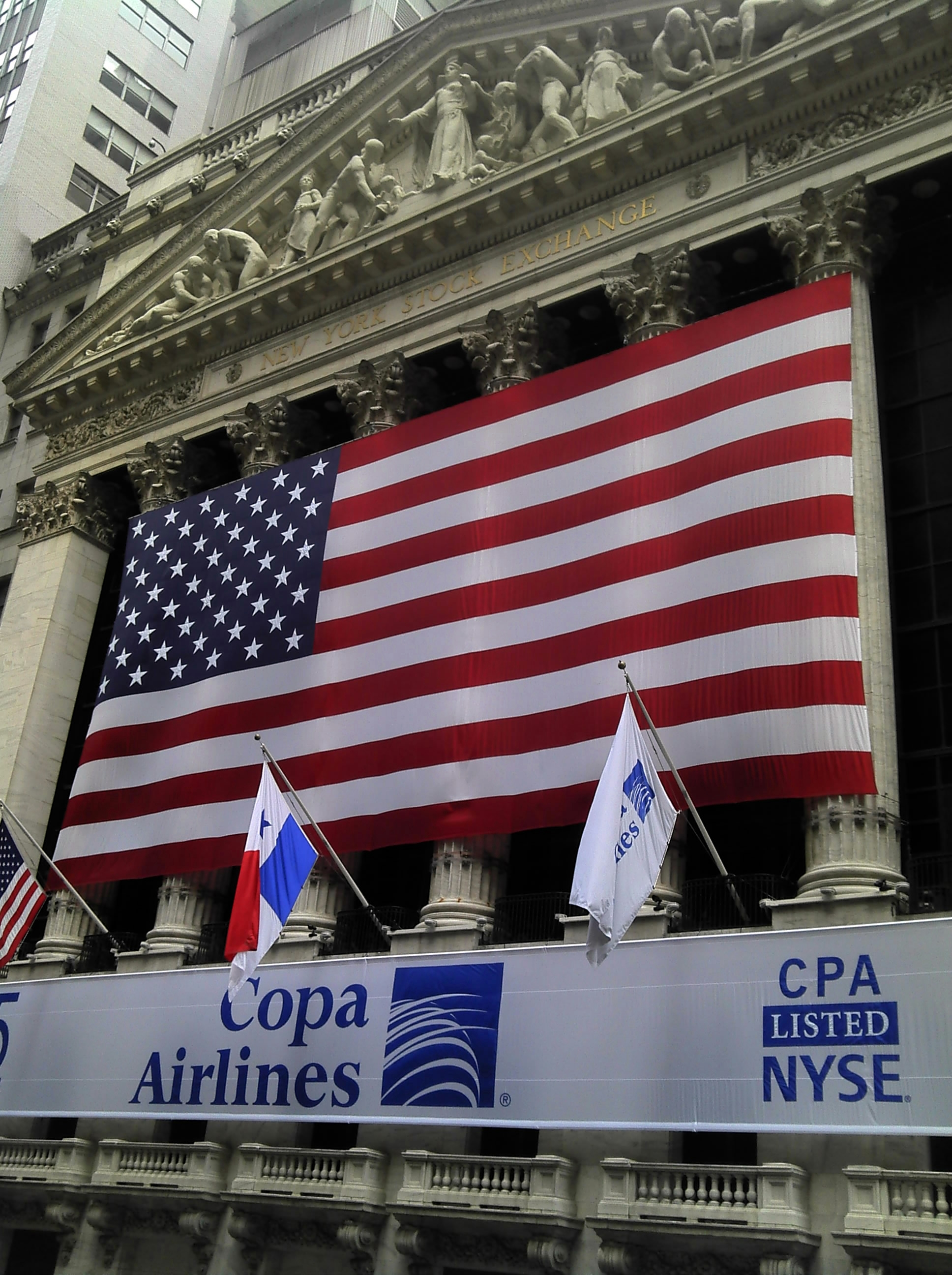 Copa Airlines listing on the New York Stock Exchange